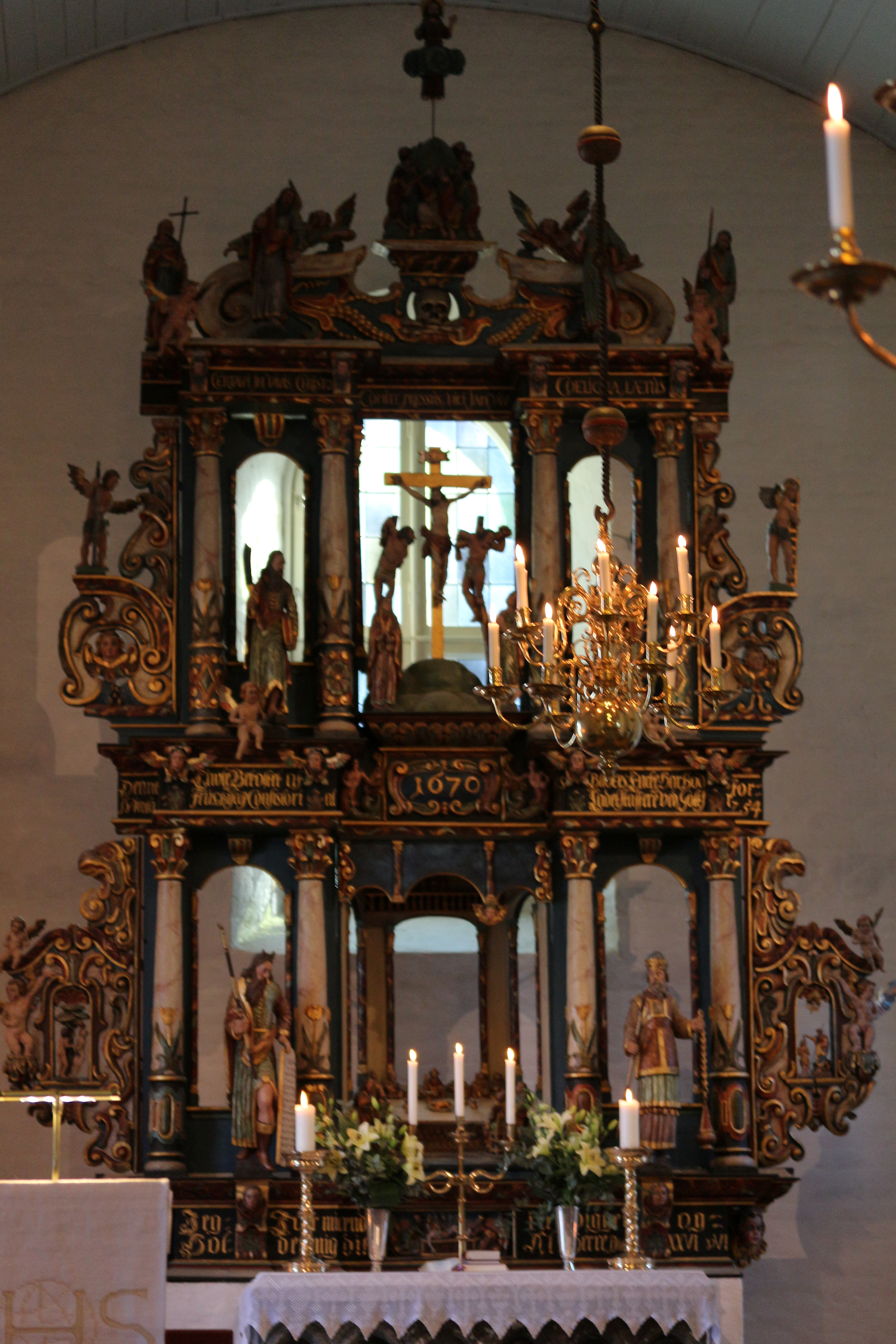 Bodin church - altarpiece.